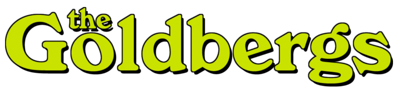 Logo for the 2013 televisions series The Goldbergs. By American Broadcasting Company, from